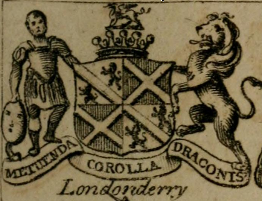 The arms of Robert Stewart Earl of Londonderry in 1808